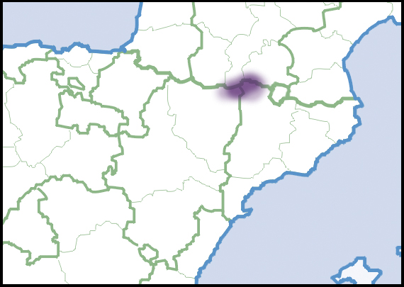 Pyrenaearia carascalopsis (Fagot, 1884). Distribution in Europe, scientific state of knowledge of 2012. Source description in English. Light colour indicated rare occurrences or regions where the species could eventually be expected to occur. Dark colour indicated relatively reliable occurrences, as well as regions where the species was expected to occur, and where the species was not known to be extremely rare. Dark colour indications were not necessarily based on published records. Species summary in AnimalBase